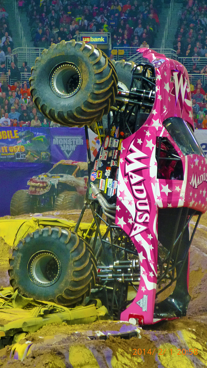 Debra Meceli's monster truck, MadUSA, at Monster Jam in the Edward Jones Dome, Saint Louis, MO, February 1st, 2014. The truck is stopped, standing on its rear end and back tires.